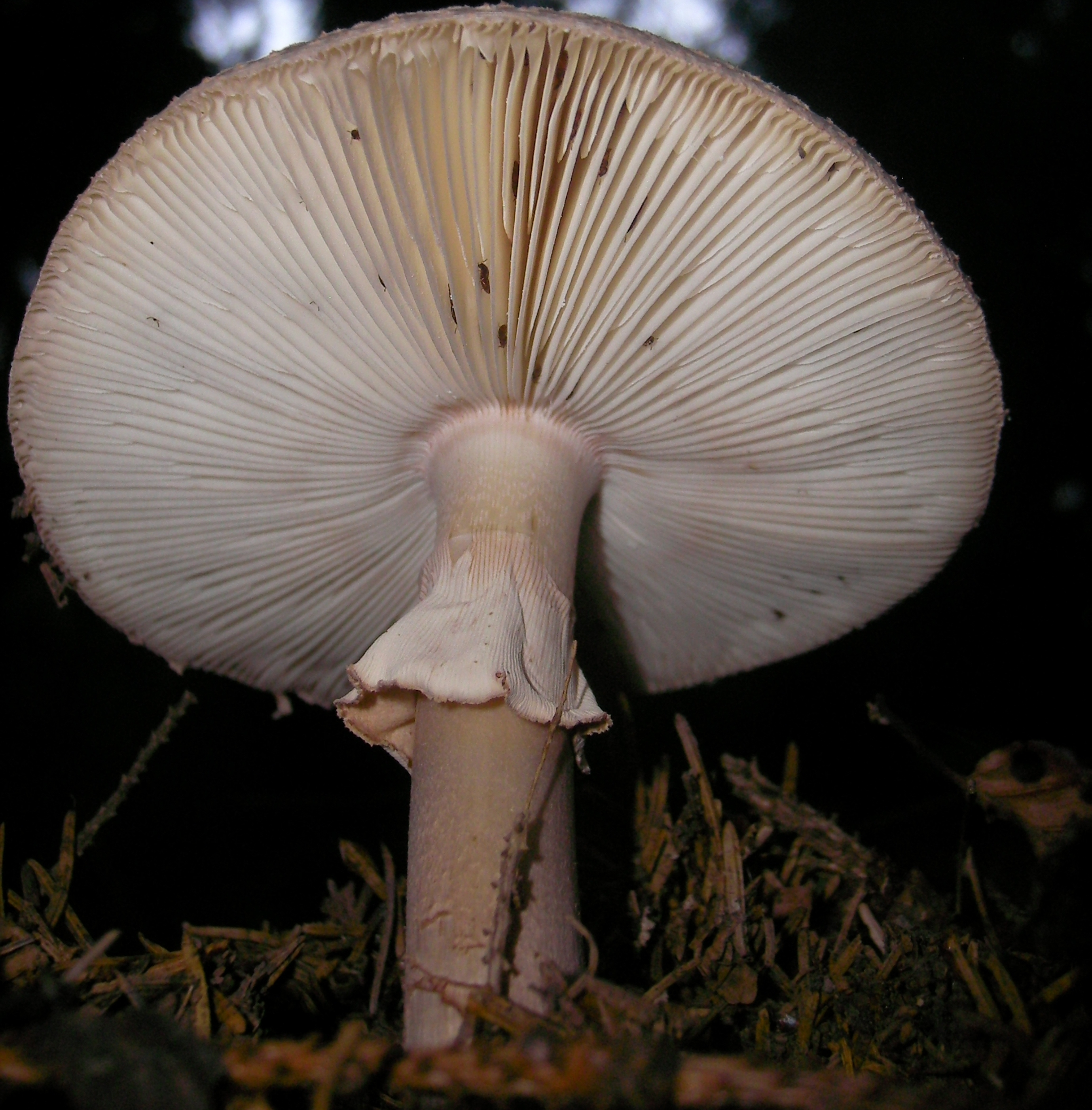 Amanita rubescens